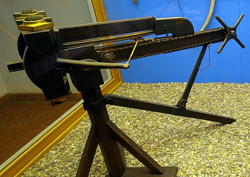 Edited version op Commons-file Ancient Mechanical Artillery. Pic 01.jpg